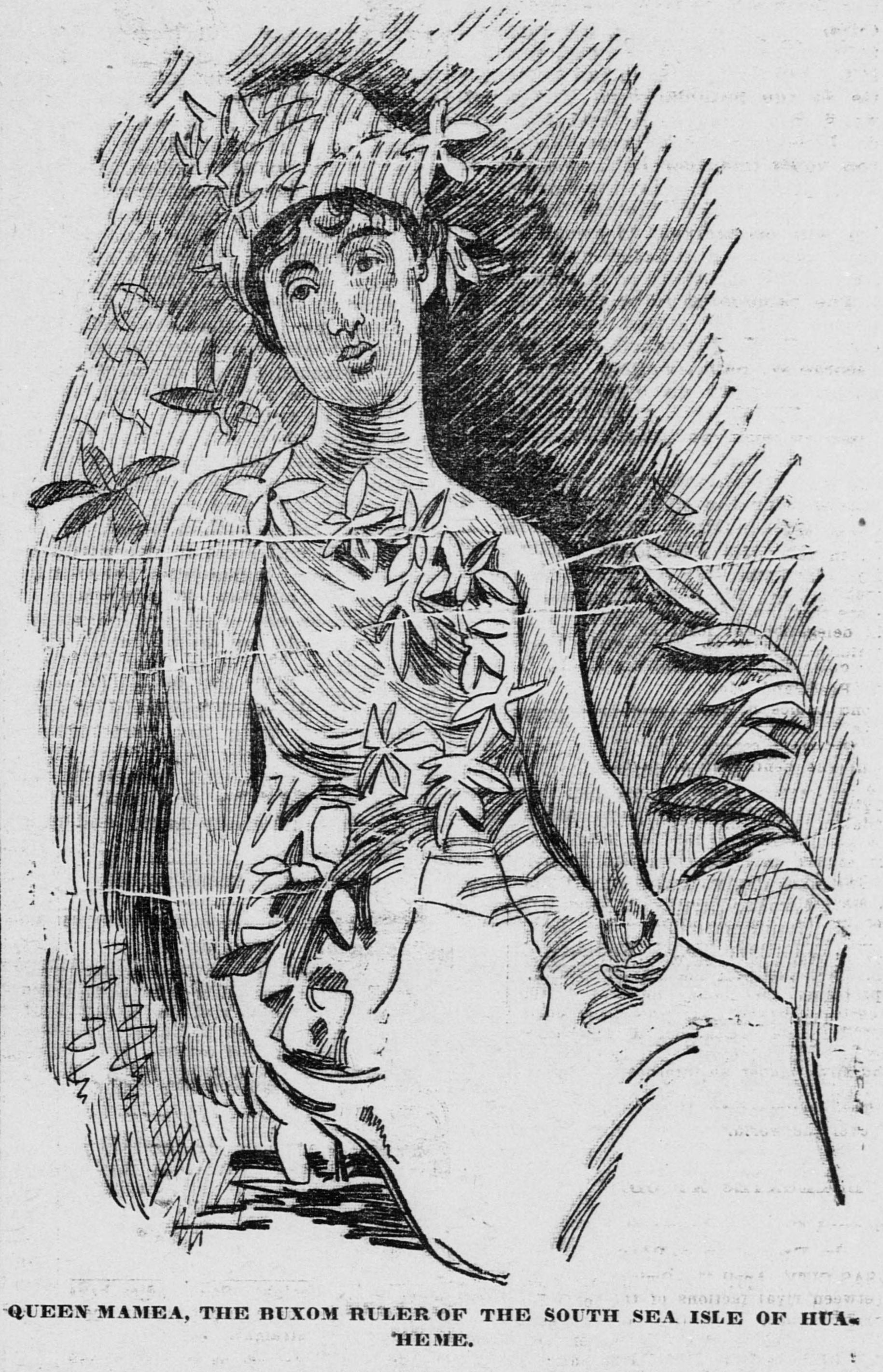 Queen Mamea, the buxom ruler of the South Sea Isle of Huaheme [sic]. Although other sources call her Queen of Raiatea.